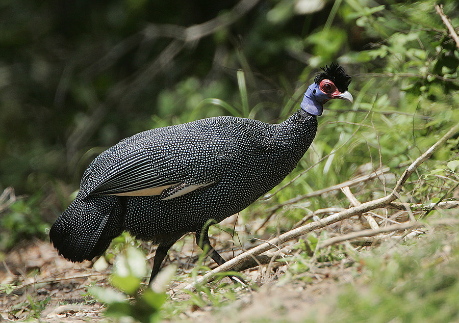 A Crested Guineafowl in Gede, Coast Province, Kenya.